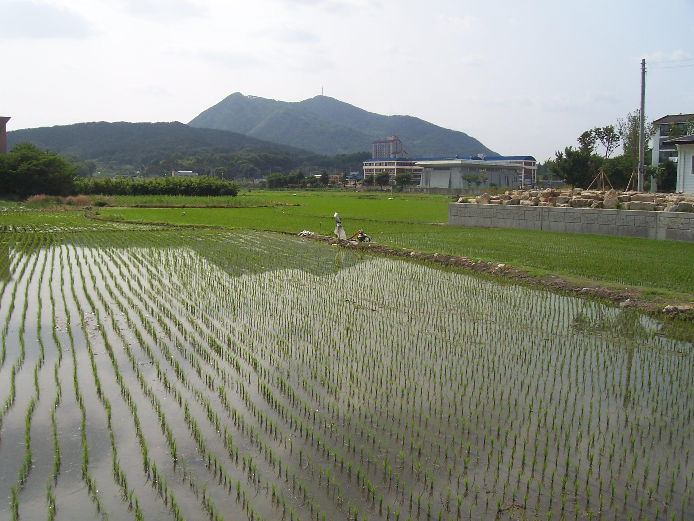 Rice Fields on the outskirts of the city.